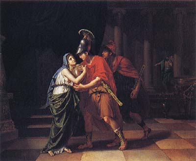 Electra Receiving the Ashes of Her Brother, Orestes